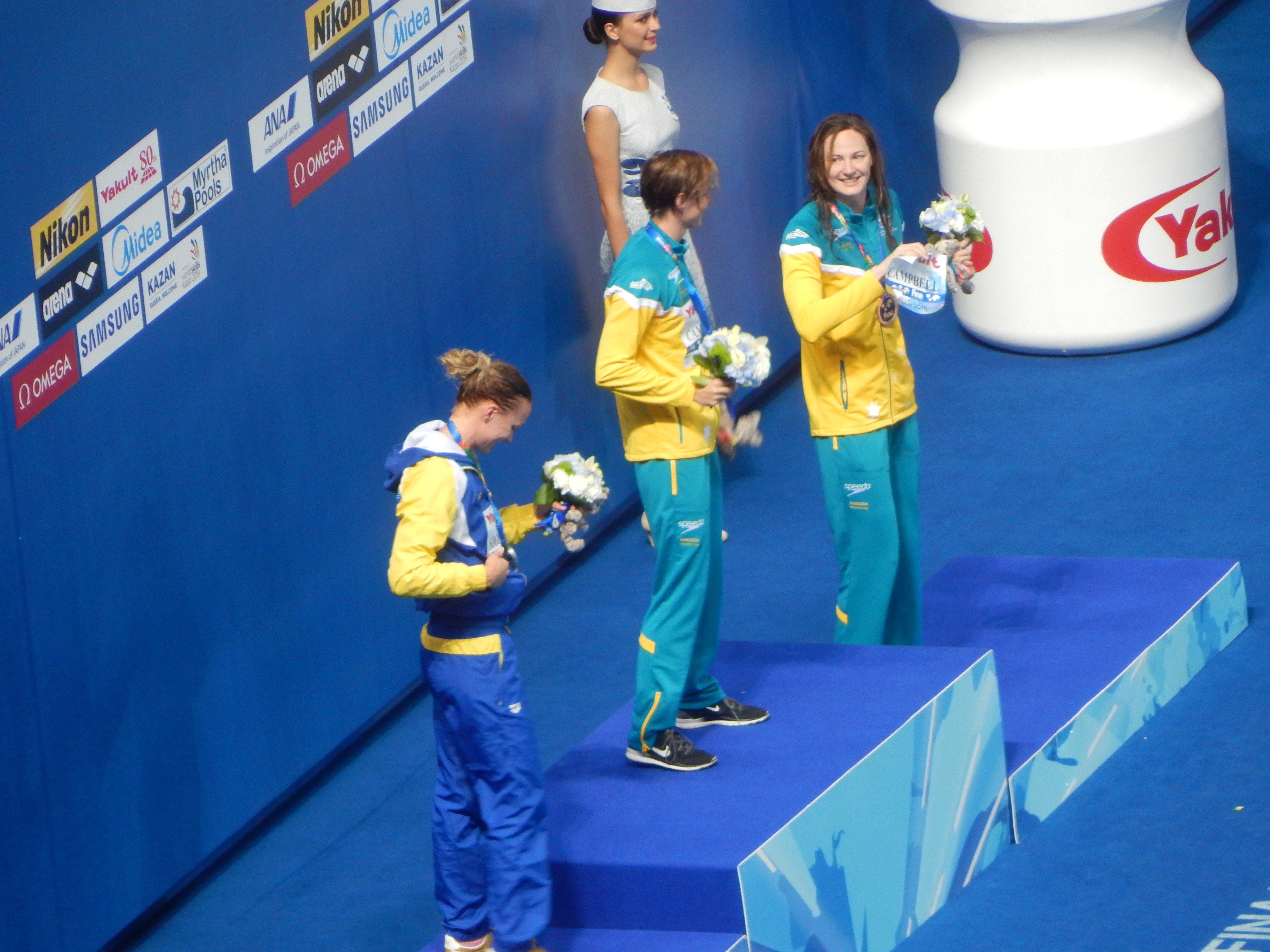 Medallists at the women's 100 metres freestyle in Kazan 2015